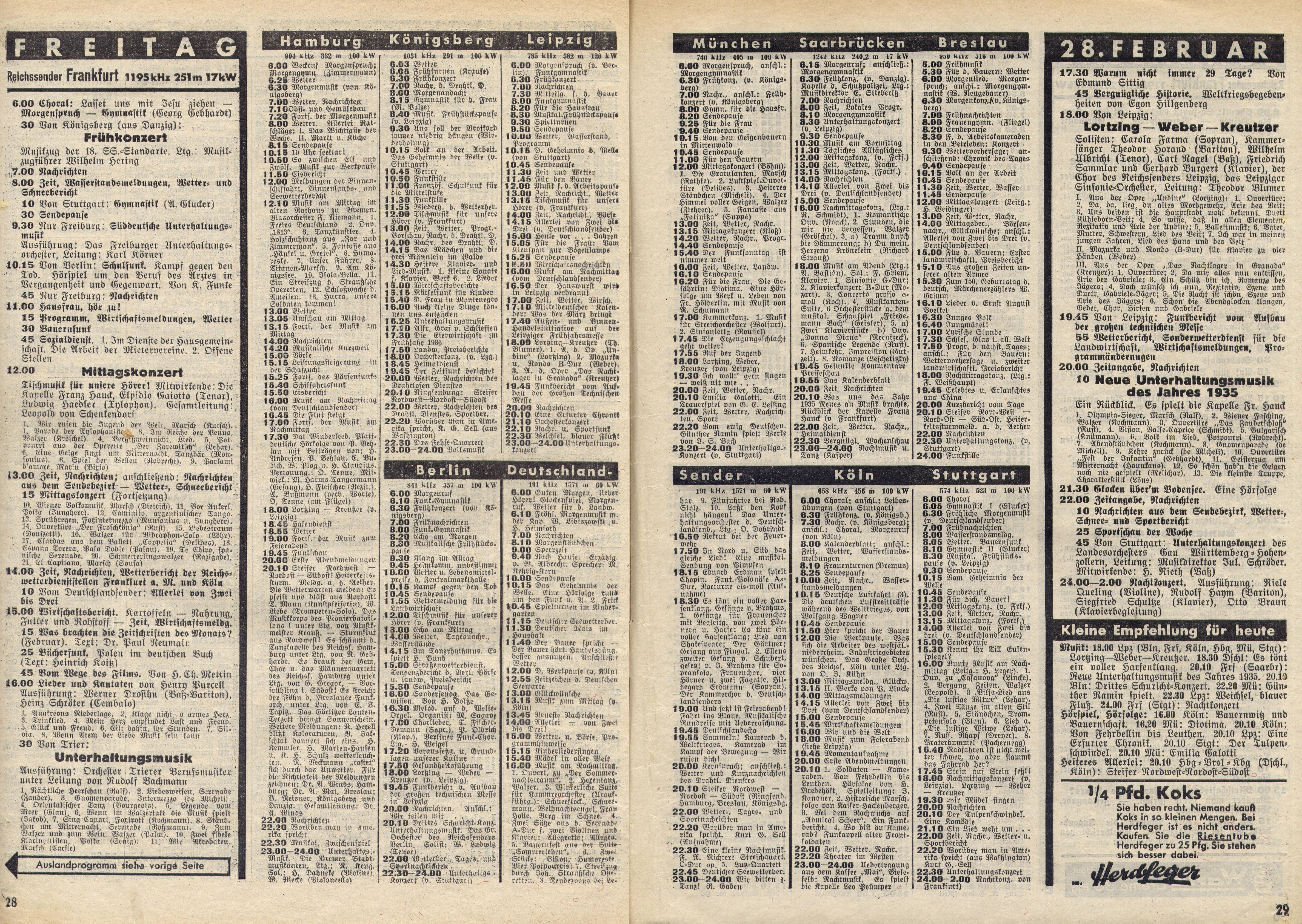 1936 radio schedule for Friday, Feb. 28. Inlandssender (airing from within the Nazi-Reich) aired by "Reichssender" Frankfurt, Hamburg, Königsberg, Leipzig, München, Saarbrücken, Breslau, Köln, Berlin and Stuttgart, plus: Deutschlandsender.